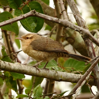 Thrush-like Wren at North Pantanal, Poconé - MT - Brazil